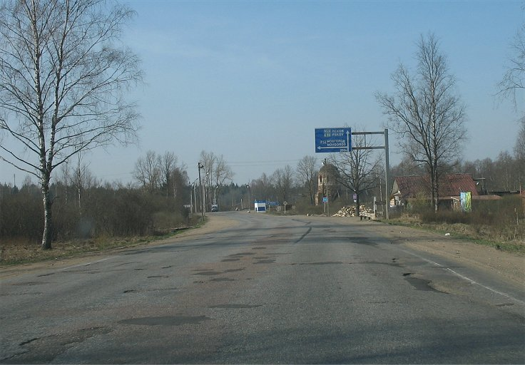 European E95 i.e. national M20 highway in Nikolaevo before junktion P52 to Novgorod in Pskov oblast, Russia.